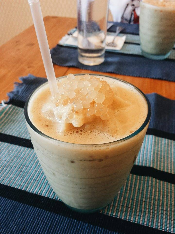 The Breakfast Table in Maginhawa